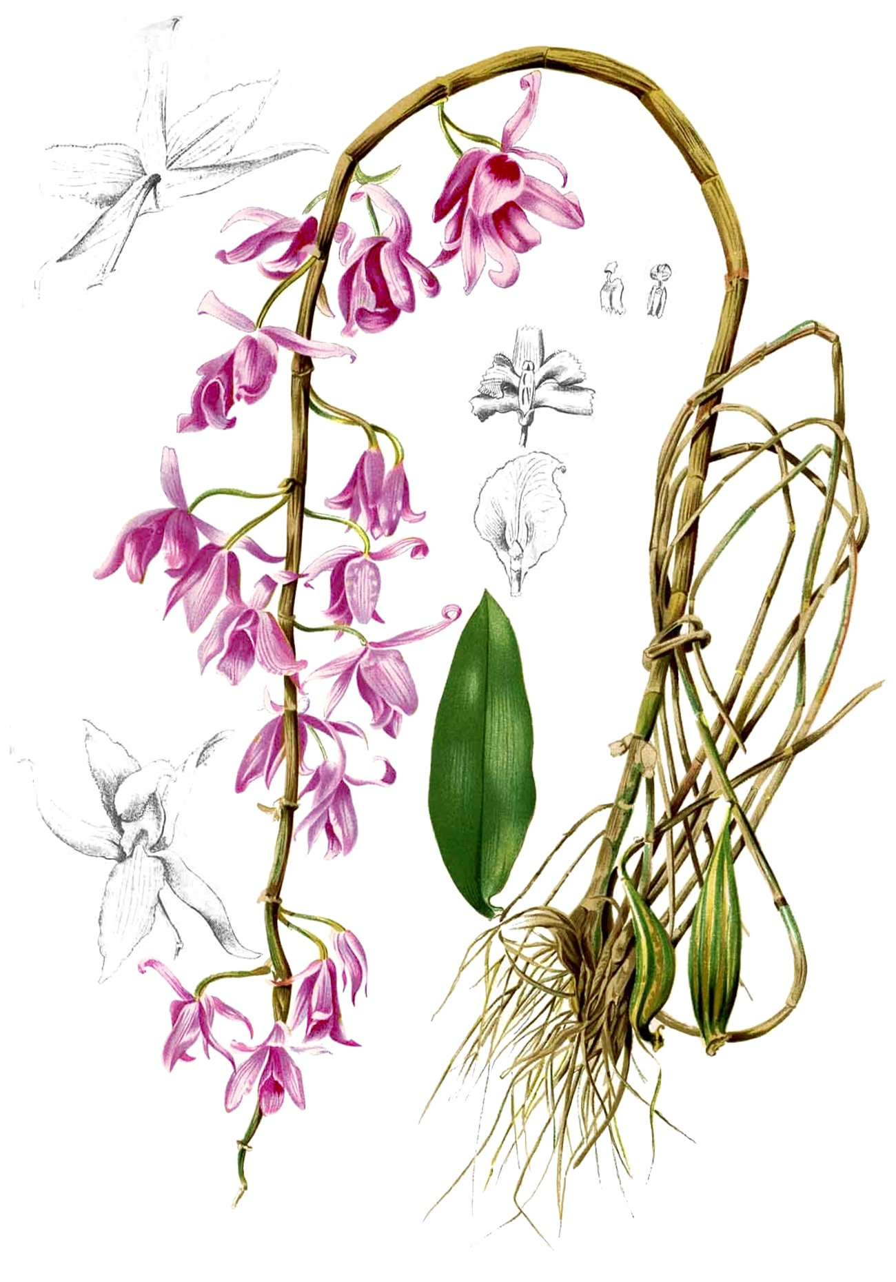 Plate from book